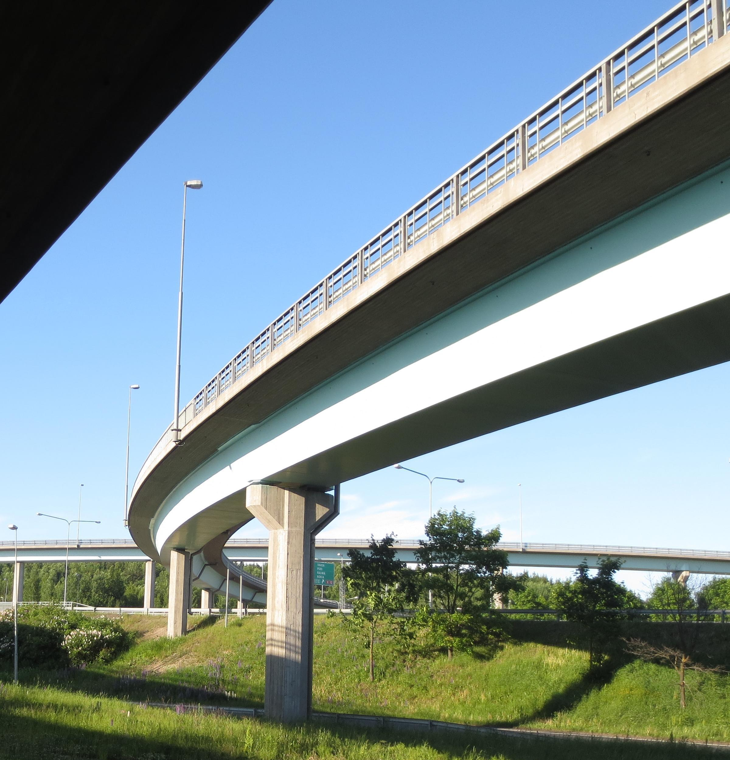 Lakalaiva interchange on the highways 3 (E12) and 9 (E63) in Tampere, Finland.